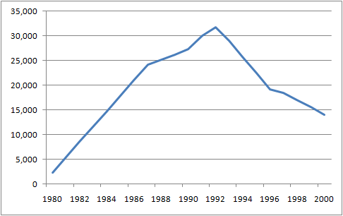 Water Supply Saudia Arabia, 1980–2000 in Millions of Cubic meters. Created from data obtained from Walid A. Abderrahman Water demand management in Saudi Arabia, table 1.